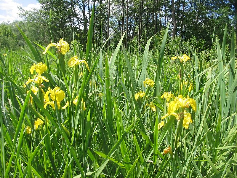 Yellow Iris in the Tiefwerder Wiesen. Tiefwerder is a former village, founded in 1816, in Berlin-Spandau and an ait in Berlin-Wilhelmstadt from river Havel. The Tiefwerder Wiesen (meadows) are a protected area (german: Landschaftsschutzgebiet) and Berlins last natural flood plain and last spawn-area for the Northern pike.